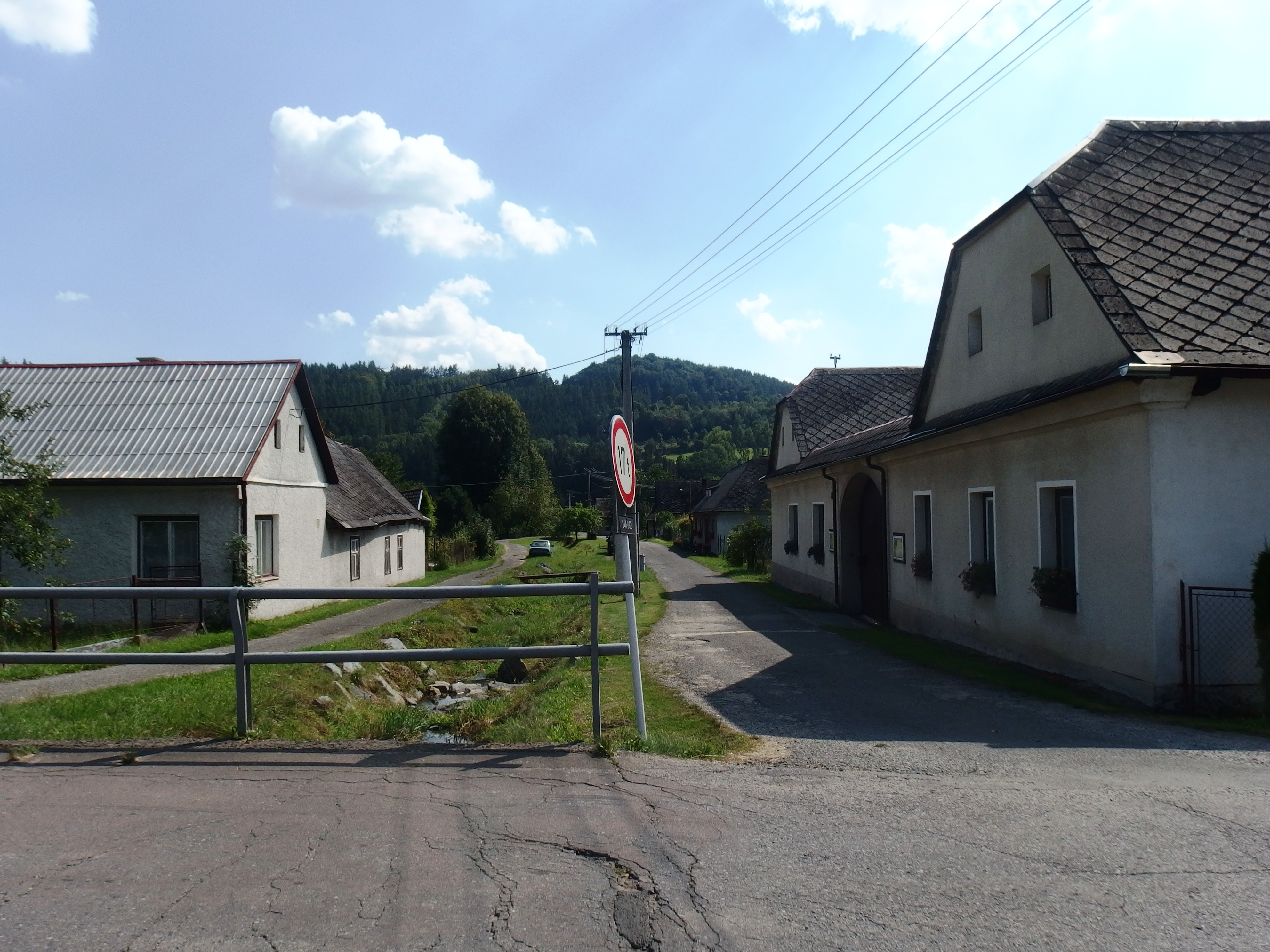 Městečko Trnávka, Svitavy District, Czech Republic, part Pěčíkov.